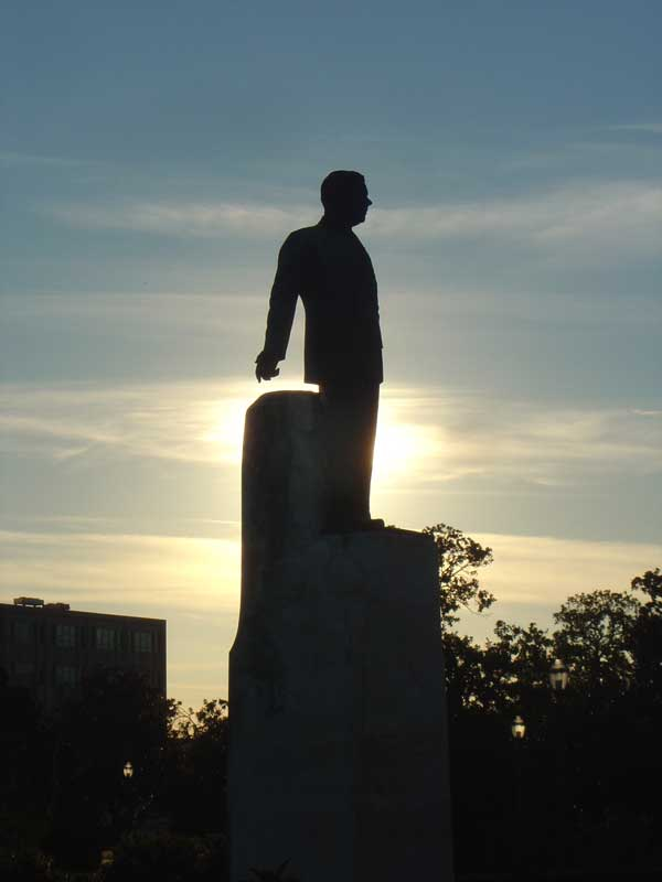 Statue of Huey Long in front of the Louisiana State Capitol